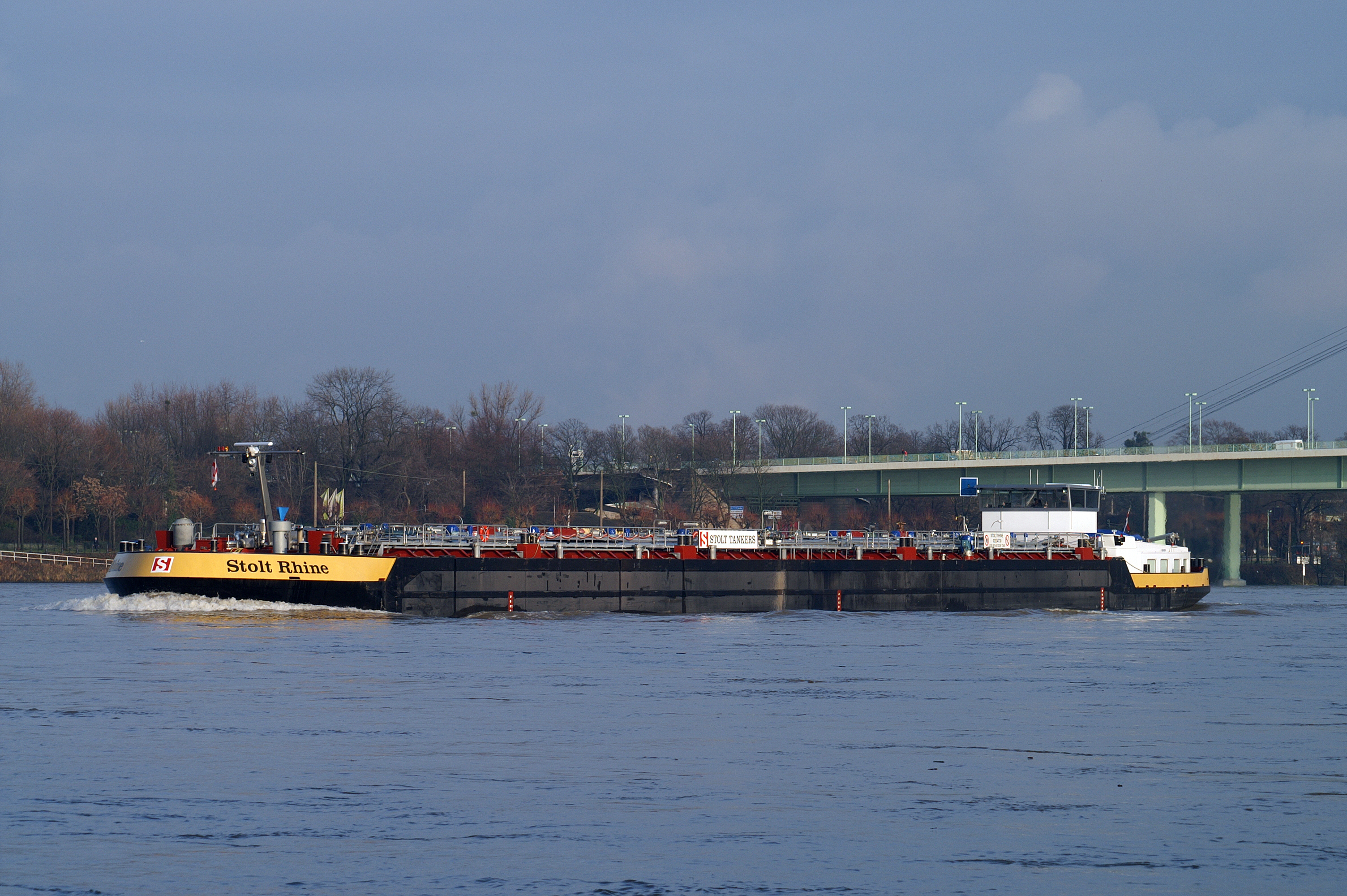 Tank barge Stolt Rhine in Cologne.